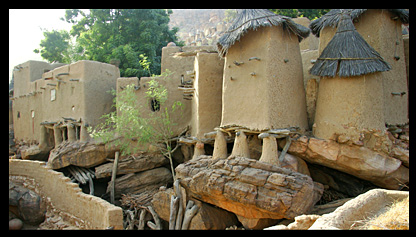 Dogon granaries